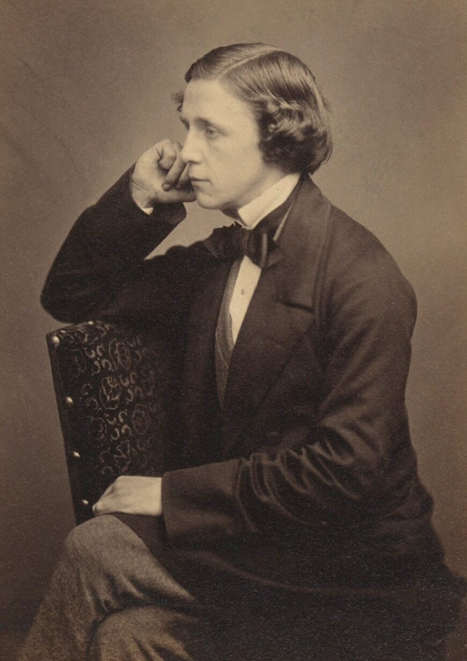 Portrait of Lewis Carroll: This was first published in Carroll's biography by his nephew, Stuart Dodgson Collington: Collingwood, Stuart Dodgson (۱۸۹۸) The Life and Letters of Lewis Carroll، لندن: T. Fisher Unwin، صص. p. 50 بازیابی‌شده در ۲۲ دسامبر ۲۱۲۱۱۲. Collington credited no one for this photograph (he has explicitly credited his uncle for other works authored by Carroll).